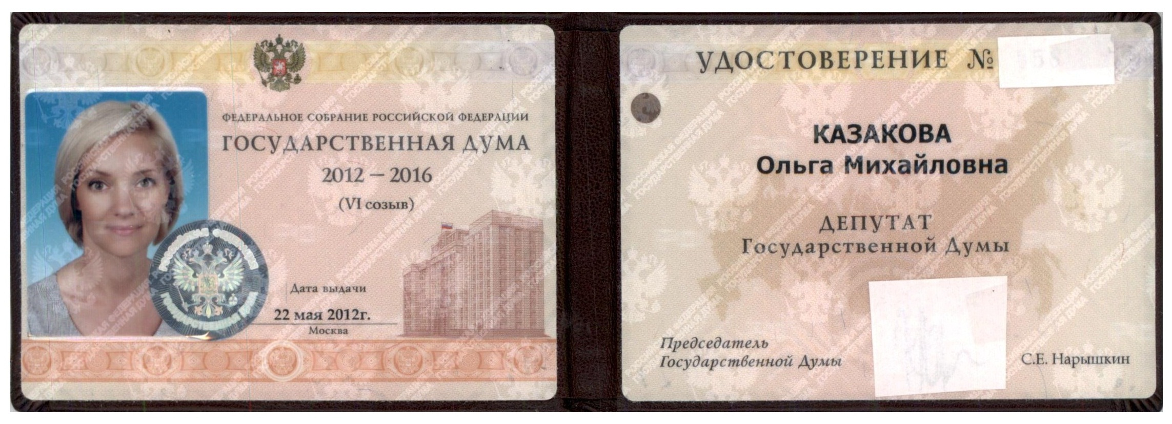 Identity cards - Document of the Deputy of the lower chamber of the Russian Parliament (6 calling)